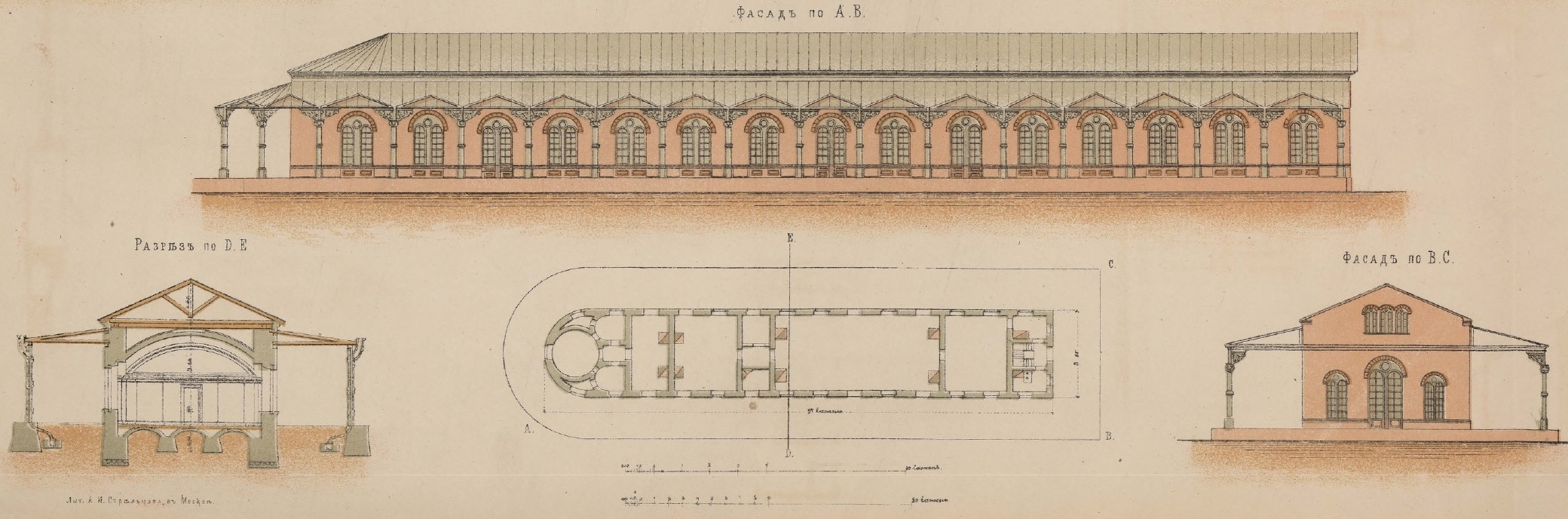 Station II class on Saint Petersburg-Moscow railway. Russian Empire